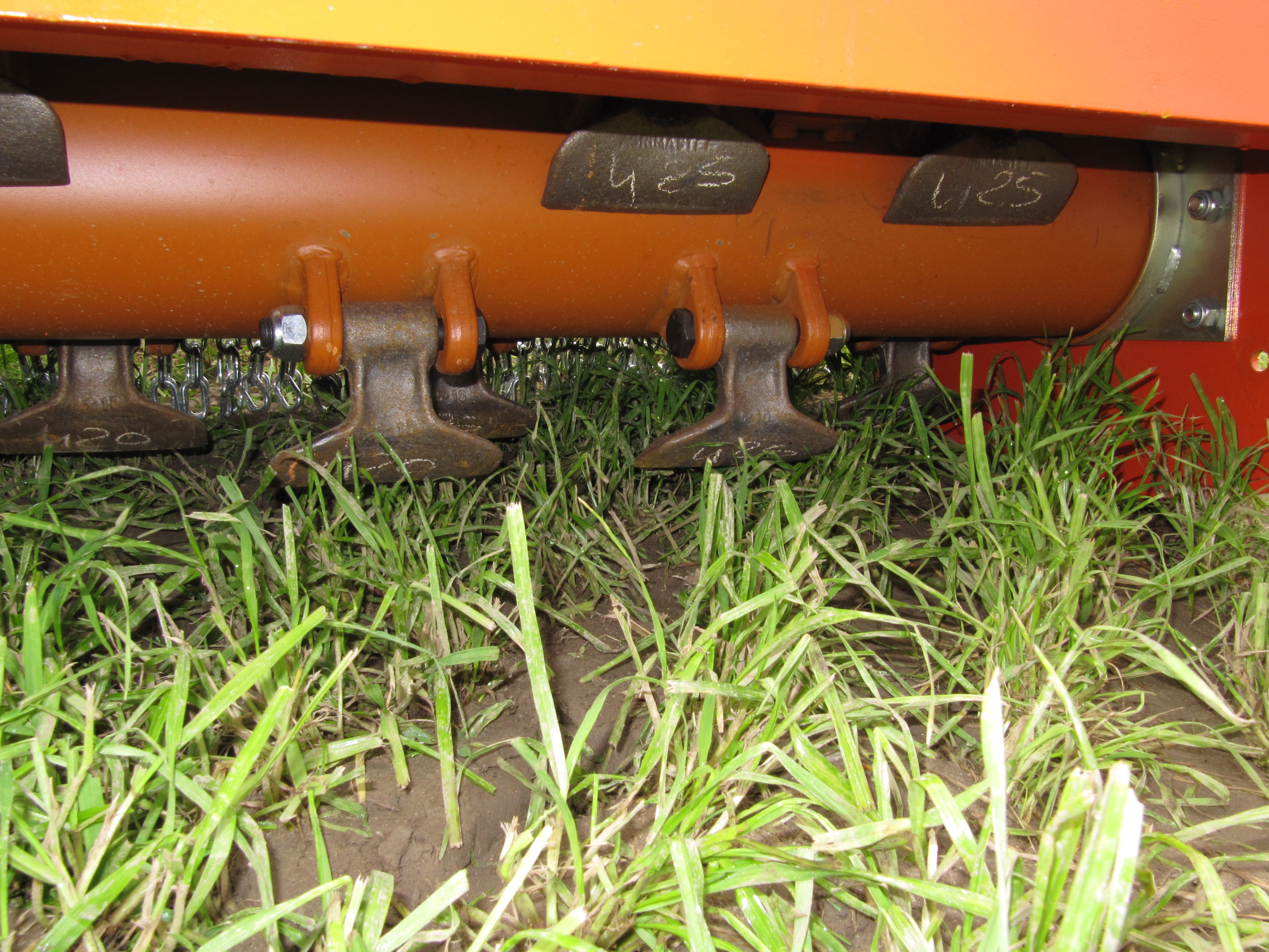 Mulcher, flail mower